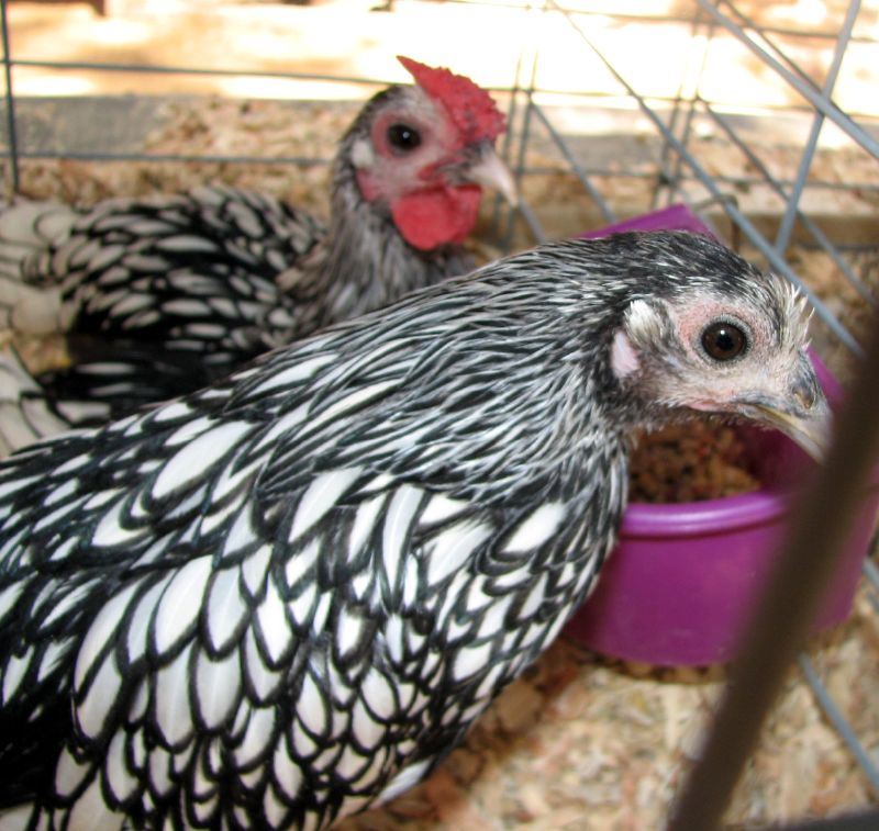 A pair of Silver Sebright bantams at a poultry show. Hen in foreground, rooster in backround.